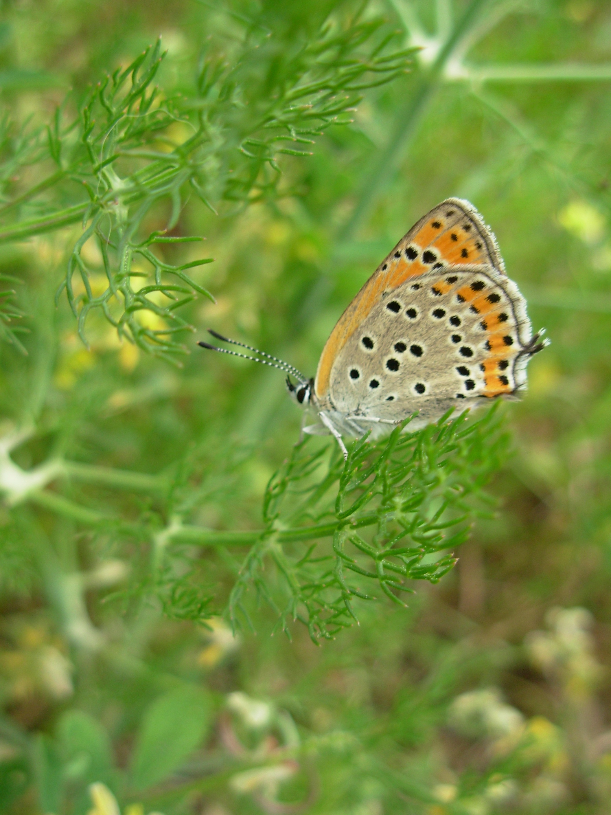 כחליל החומעה (Lycaena thersamon) הגעה הצרפתית ירושלים 21 באפריל 2011